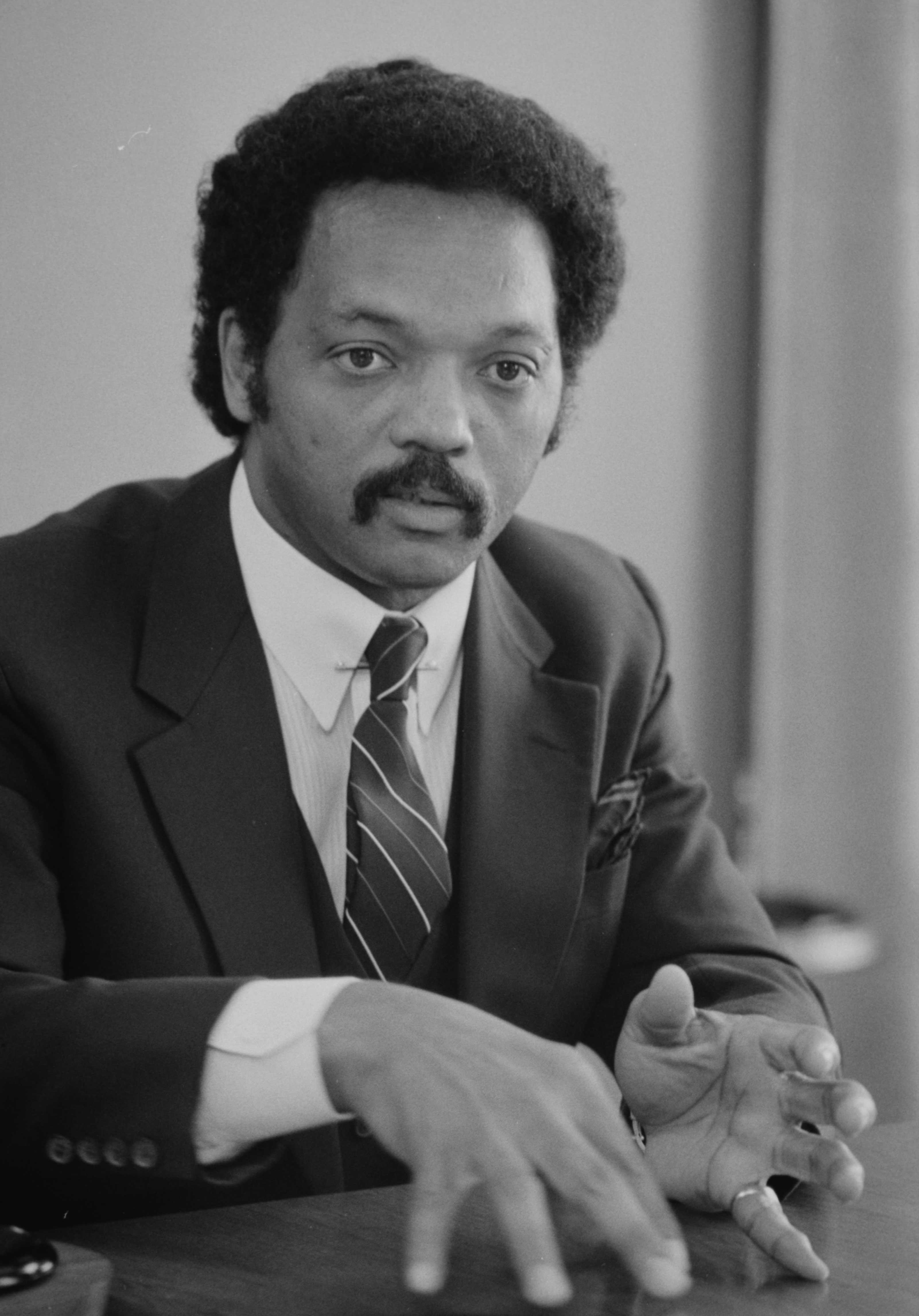 Jesse Jackson speaking during an interview in July 1, 1983.